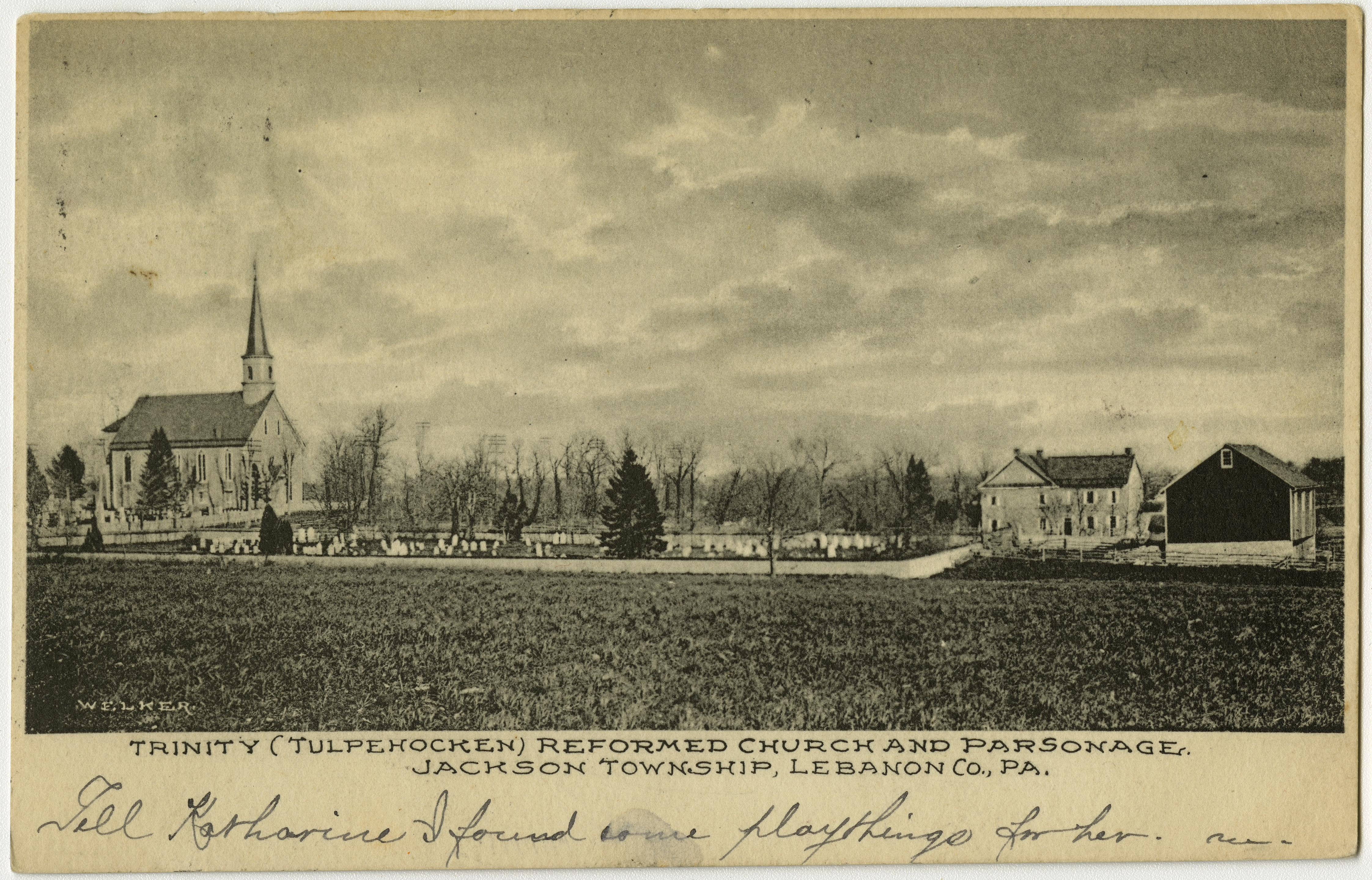 "Trinity (Tulpehocken) Reformed Church and Parsonage in Jackson Township, Lebanon Co., PA." from a pre-1923 postcard in the collections of the Presbyterian Historical Society. Author may be "WELKER" per signature in lower left hand corner. From RG 428, Postcard Collection, Presbyterian Historical Society, Philadelphia, Pennsylvania.